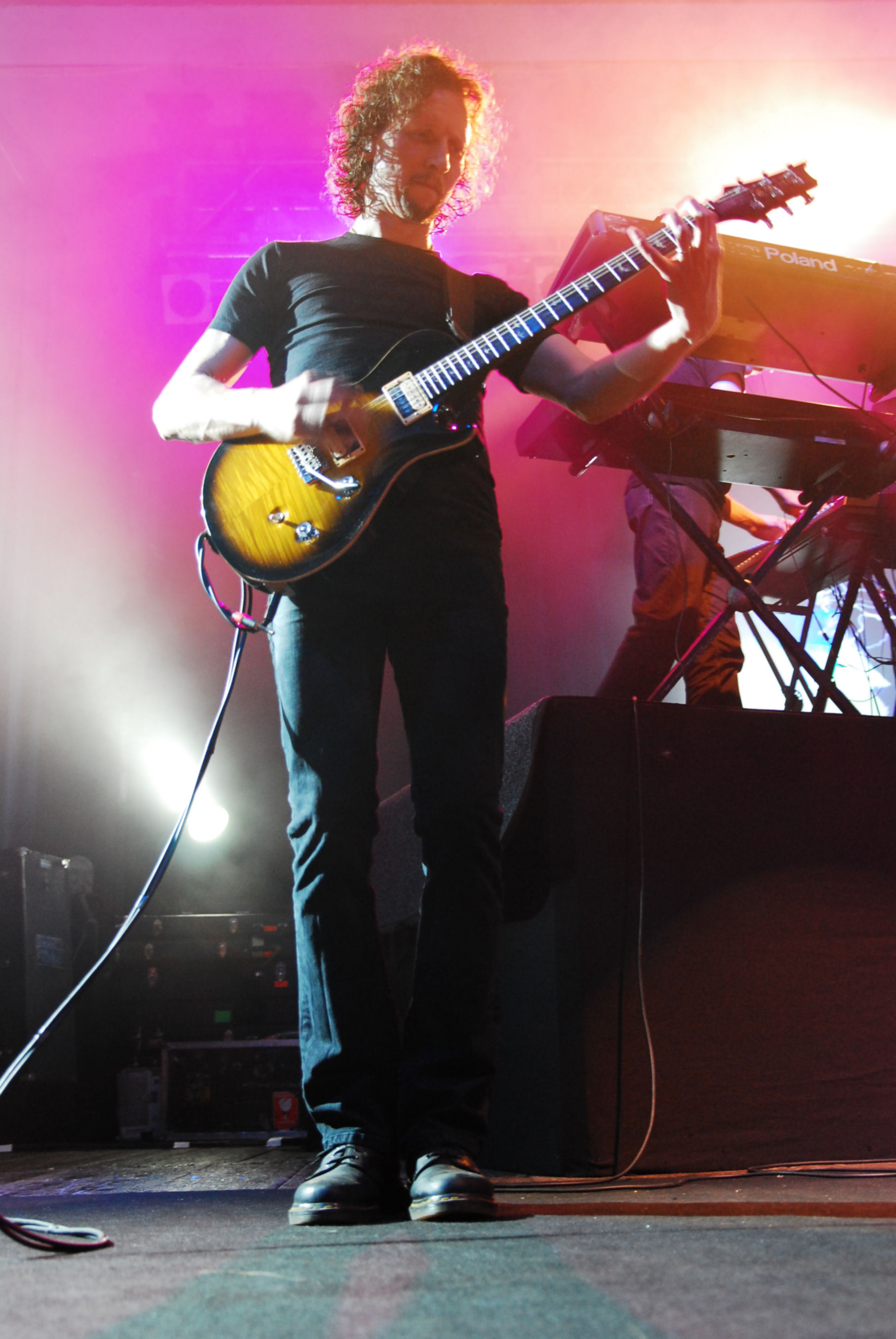 John Wesley from Porcupine Tree during concert in TS Wisła in Kraków To zdjęcie powstało dzięki współpracy z Rock-Servis